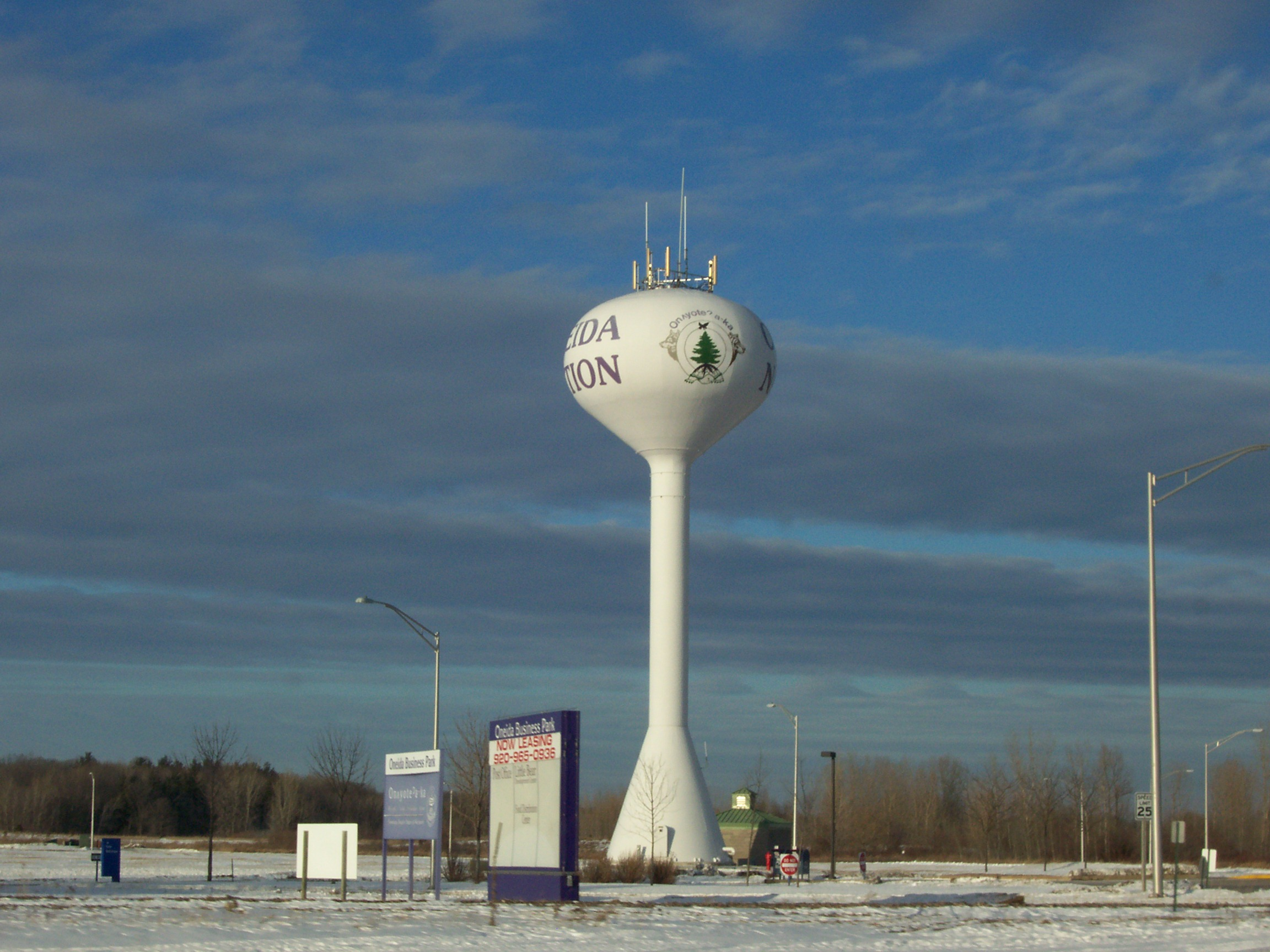 A watertower for Oneida, Wisconsin, USA. Taken February 11, 2007 by myself.